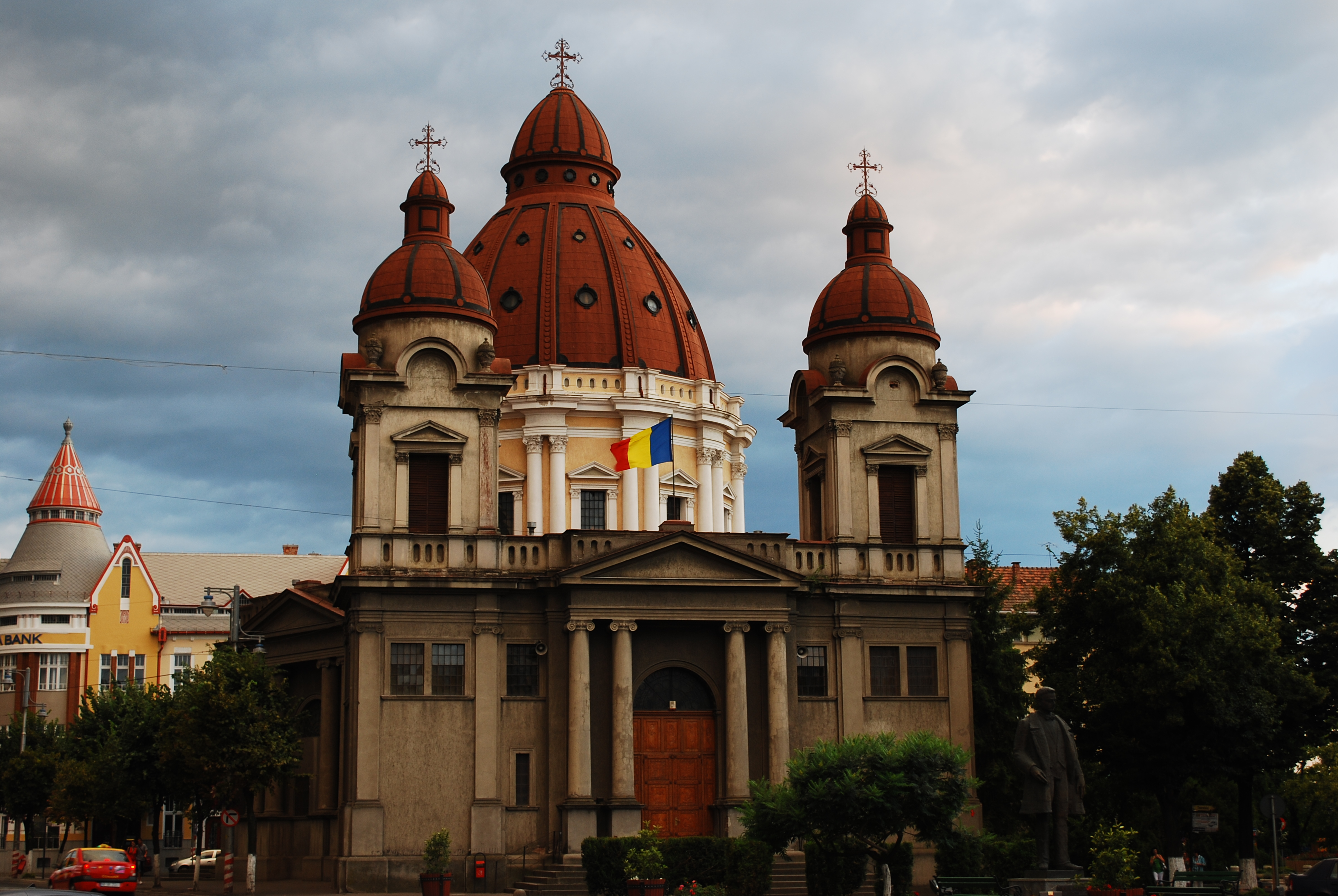 Church of the Announciation in Târgu Mureş, RomaniaRomână: Biserica Buna Vestire din Târgu Mureş, România